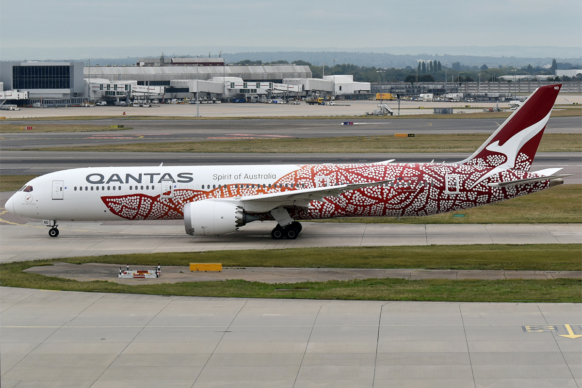 Qantas (Yam Dreaming Livery), VH-ZND, Boeing 787-9 Dreamliner